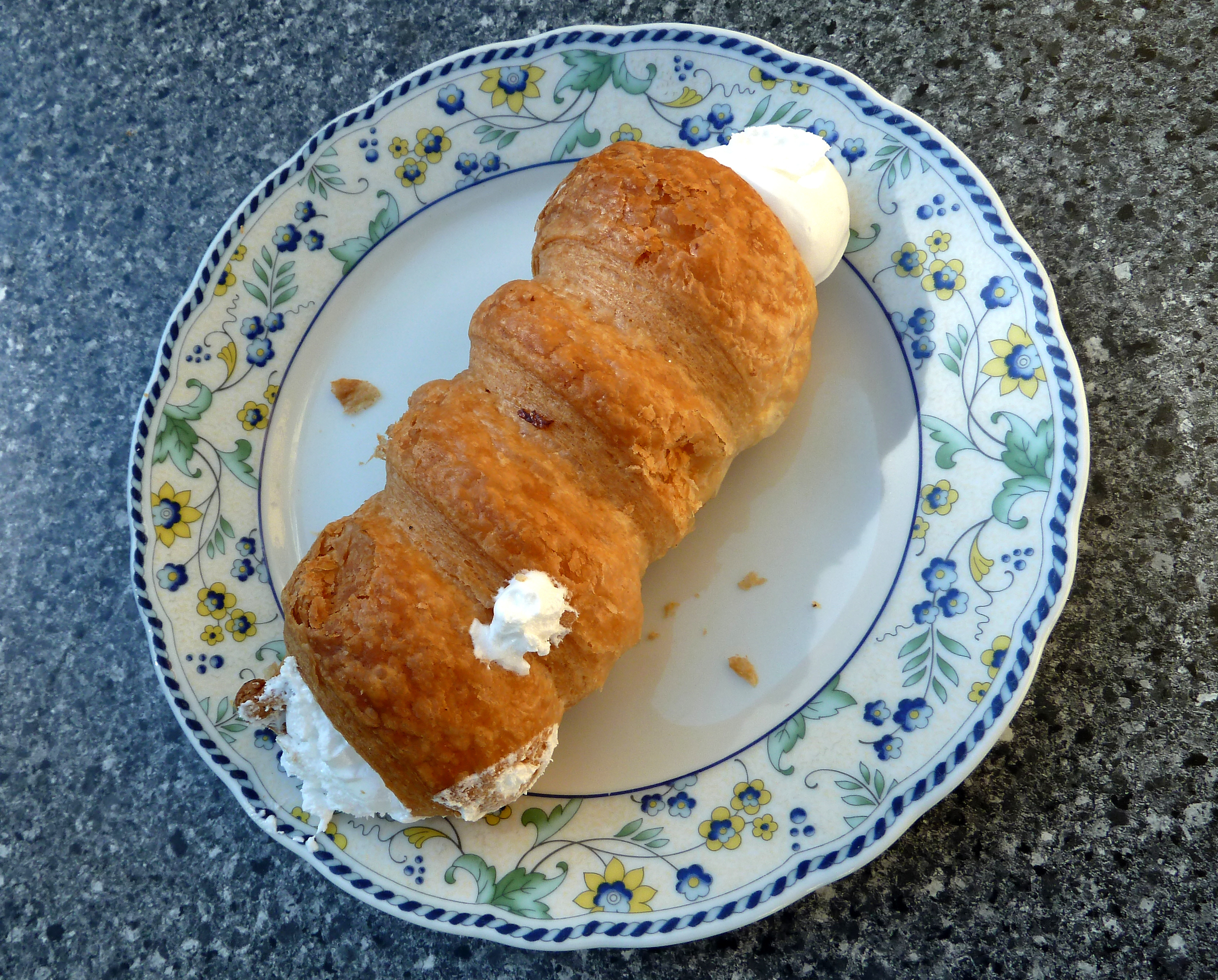 A foam roller of the bakery Wiegele in Bad Bleiberg, Carinthia, Austria